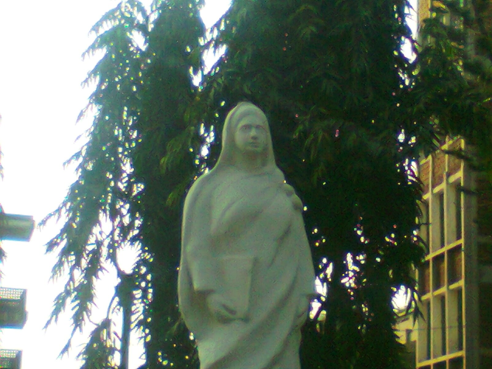 Statue of Begum Rokeya in the premises of Rokeya Hall, University of Dhaka taken during Saraswati puja festival